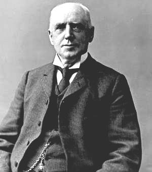 Ezra Butler Eddy, President of the E.B. Eddy Co. (Aug. 22, 1827 - Feb. 12 - 1906)